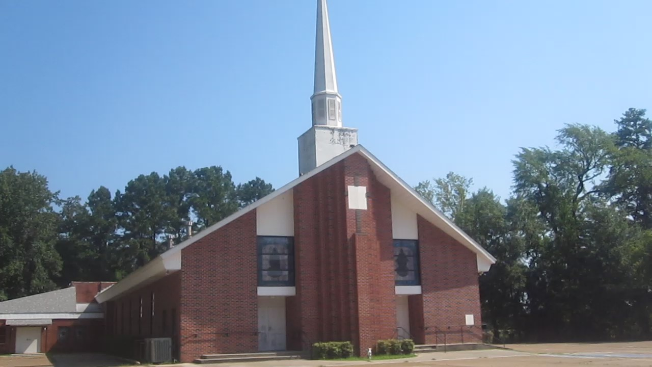 Revised photo of historic Antioch Baptist Church in Dixie Inn, LA